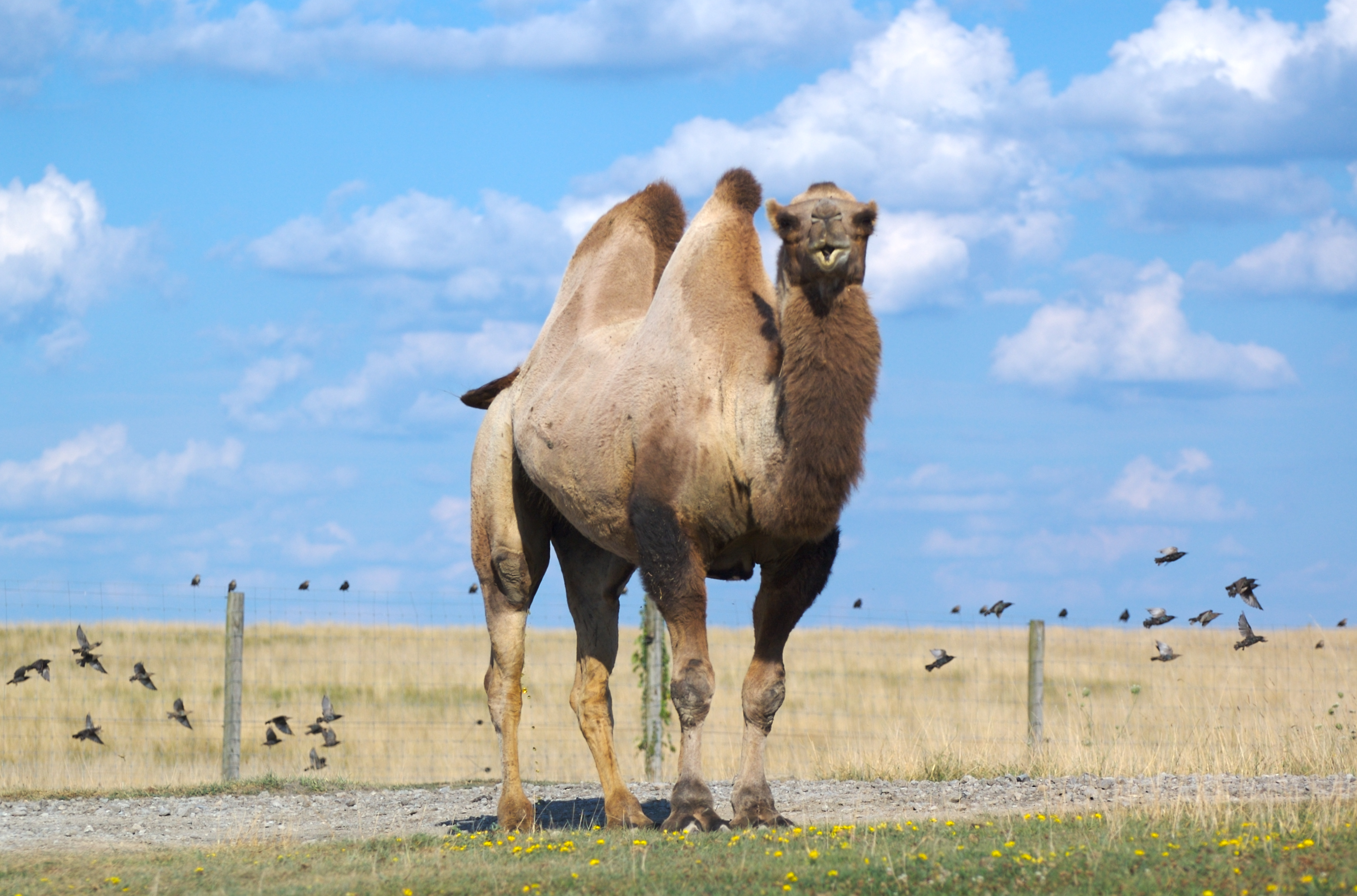 Bactrian Camel at The Wilds conservation center in Ohio, United States.